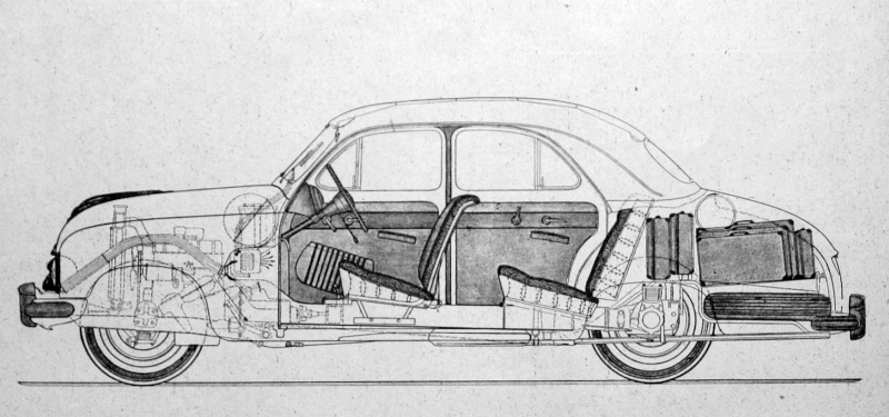 Cross-section of Škoda 1200 sedan.